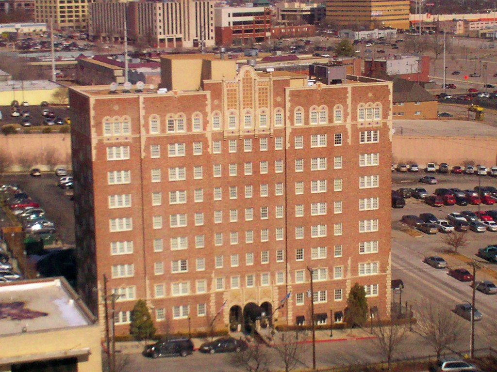 Side of the Ambassador Hotel, located at 1314 S. Main Street in Tulsa, Oklahoma, United States. Built in 1929, the hotel is listed on the National Register of Historic Places.